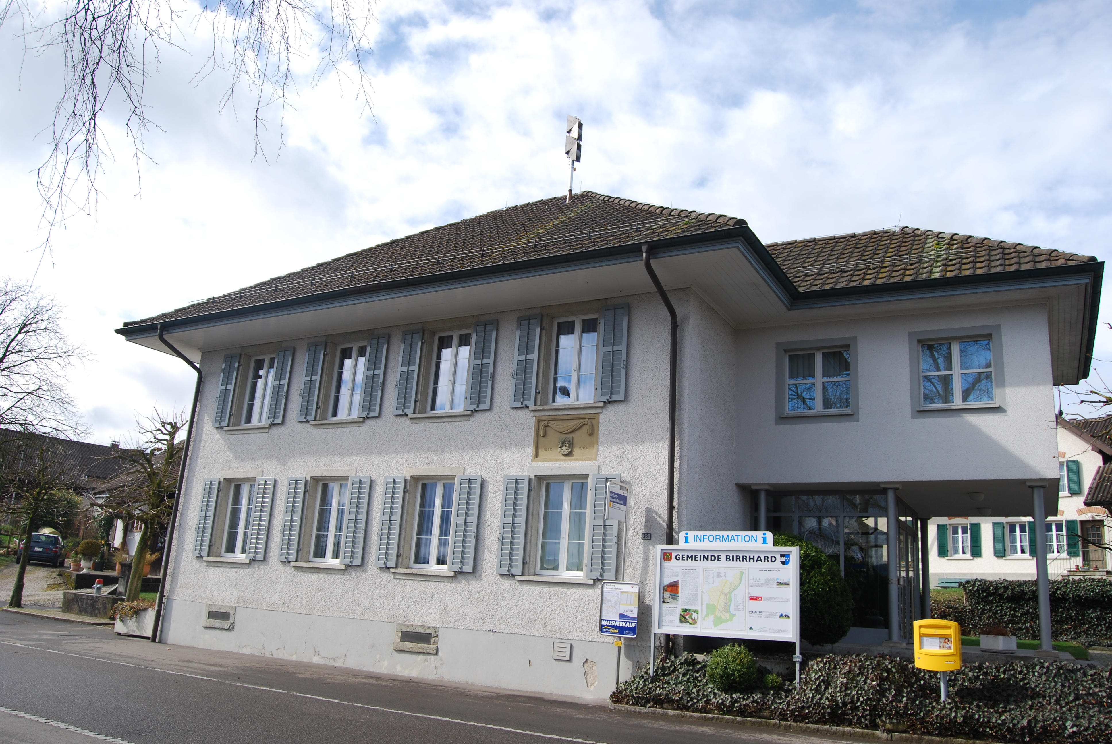 Municipal administration Birrhard, canton of Aargau, SwitzerlandEsperanto: Komunuma domo de Birrhard, Kantono Argovio, Svislando